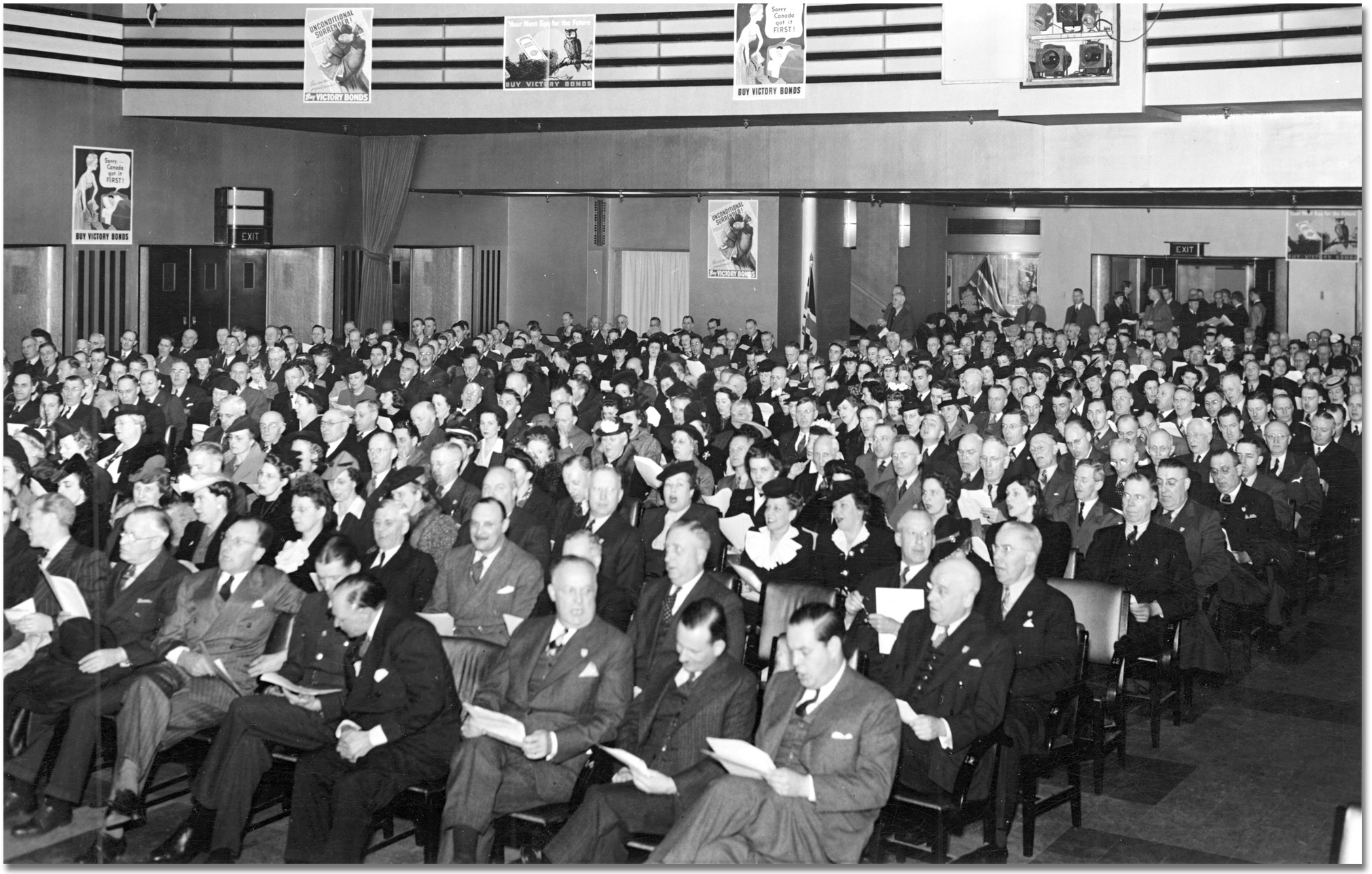 Eaton’s employees in auditorium at a War Bond Rally, 1943 (Toronto, Canada)